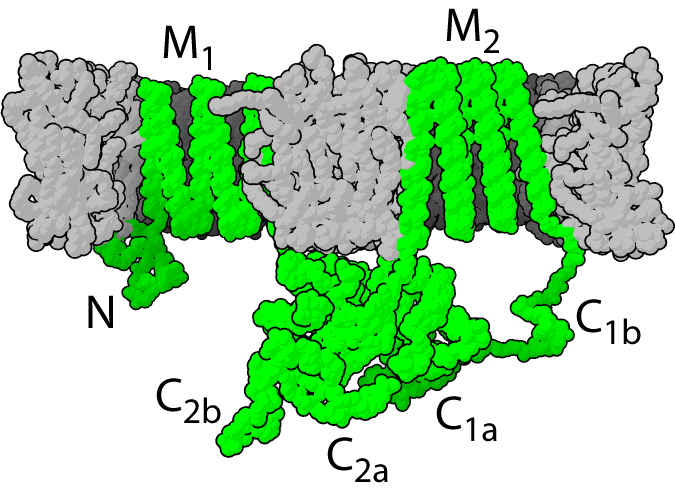 Based on PDB 1CUL and Heller/Schaefer/Schulten lipid bilayer coordinates.